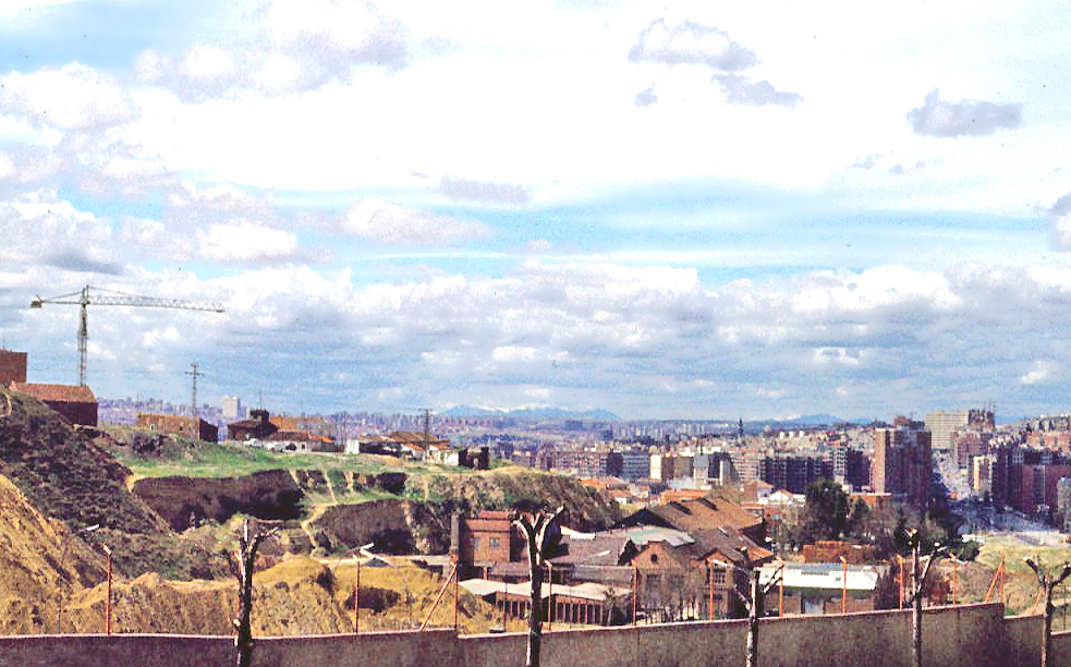 Puig ceramic factory [disappeared] at Doña Carlota neighborhood; it's possible to see, far away, the Gredos range. Madrid, Spain